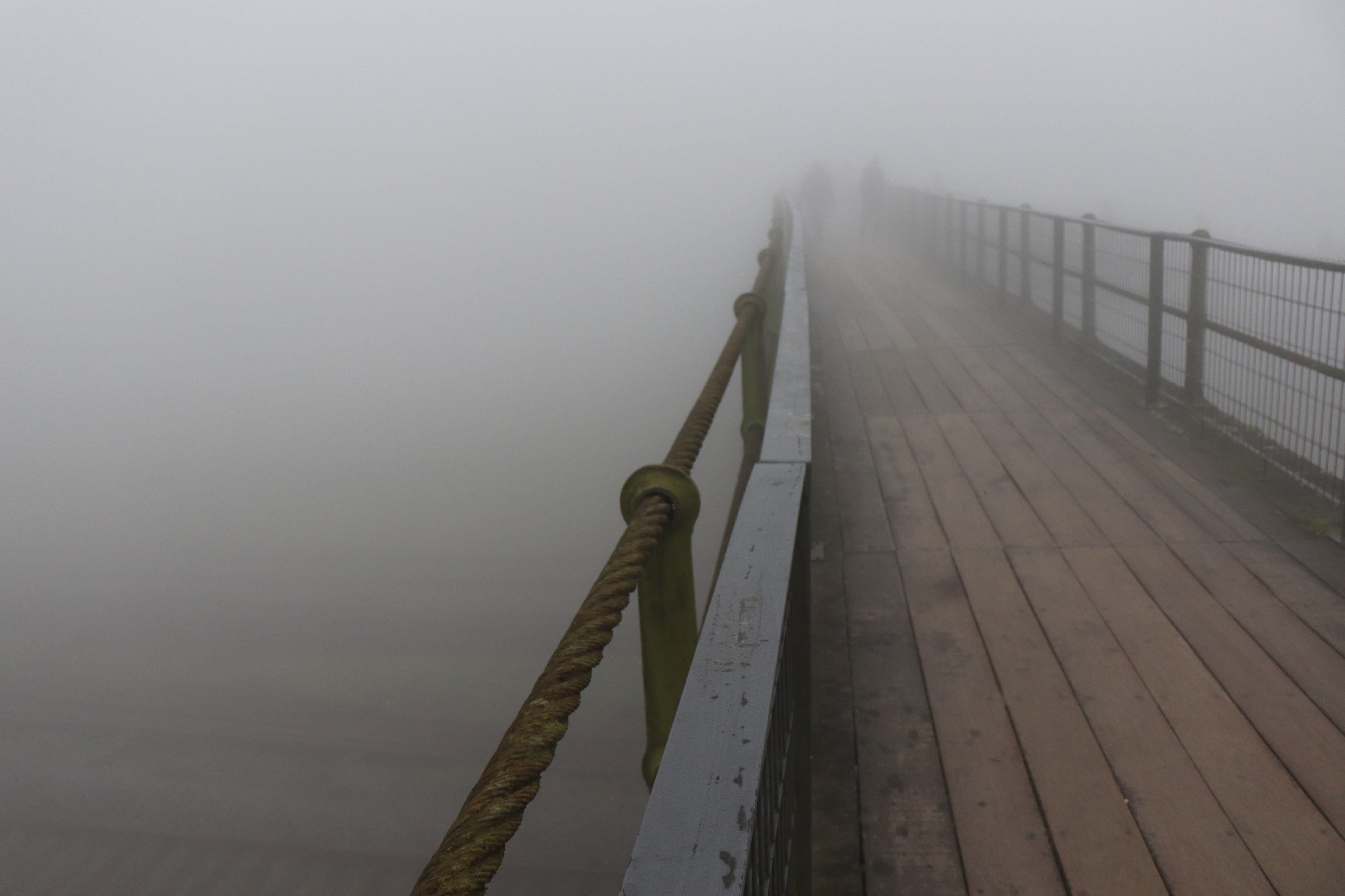 Brouillard sur la passerelle métallique de Paranapiacaba